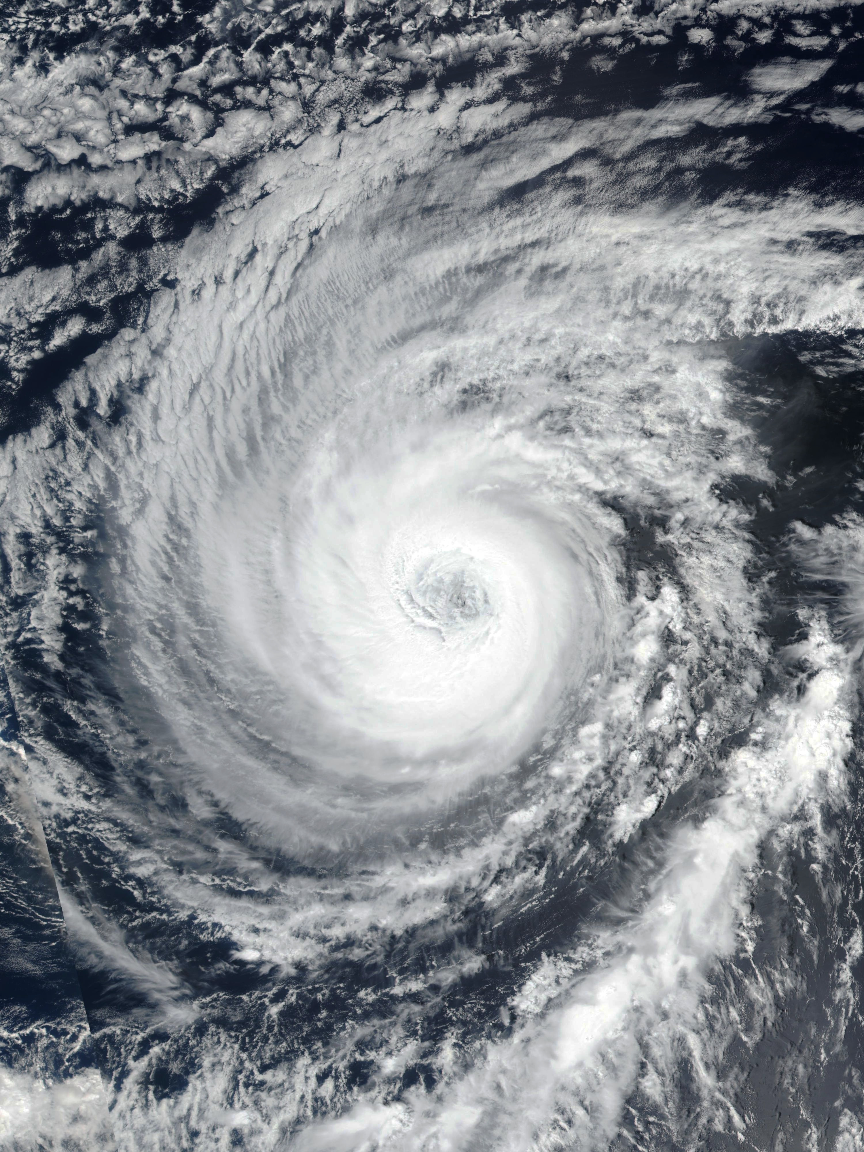 Hurricane Sergio on October 7, 2018